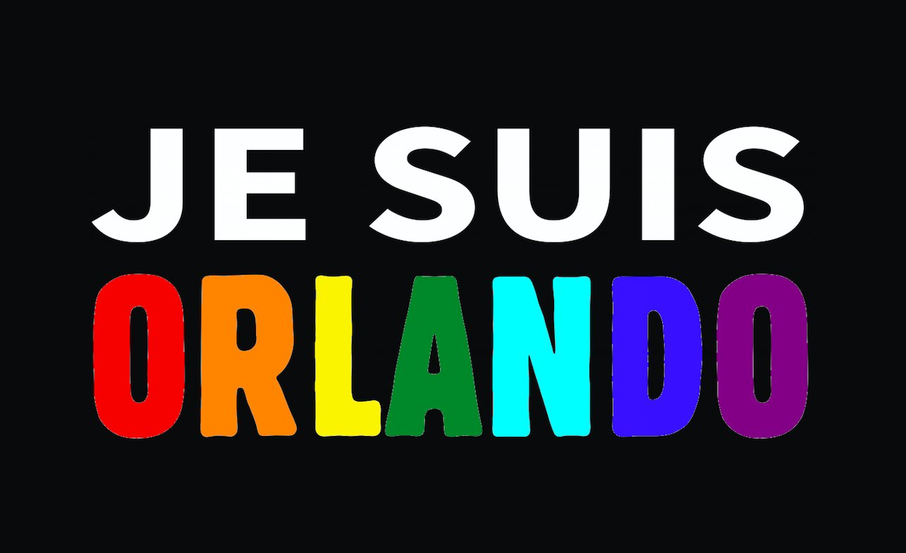 Variation on Je suis Charlie in support of the 2016 Orlando nightclub shooting victims.